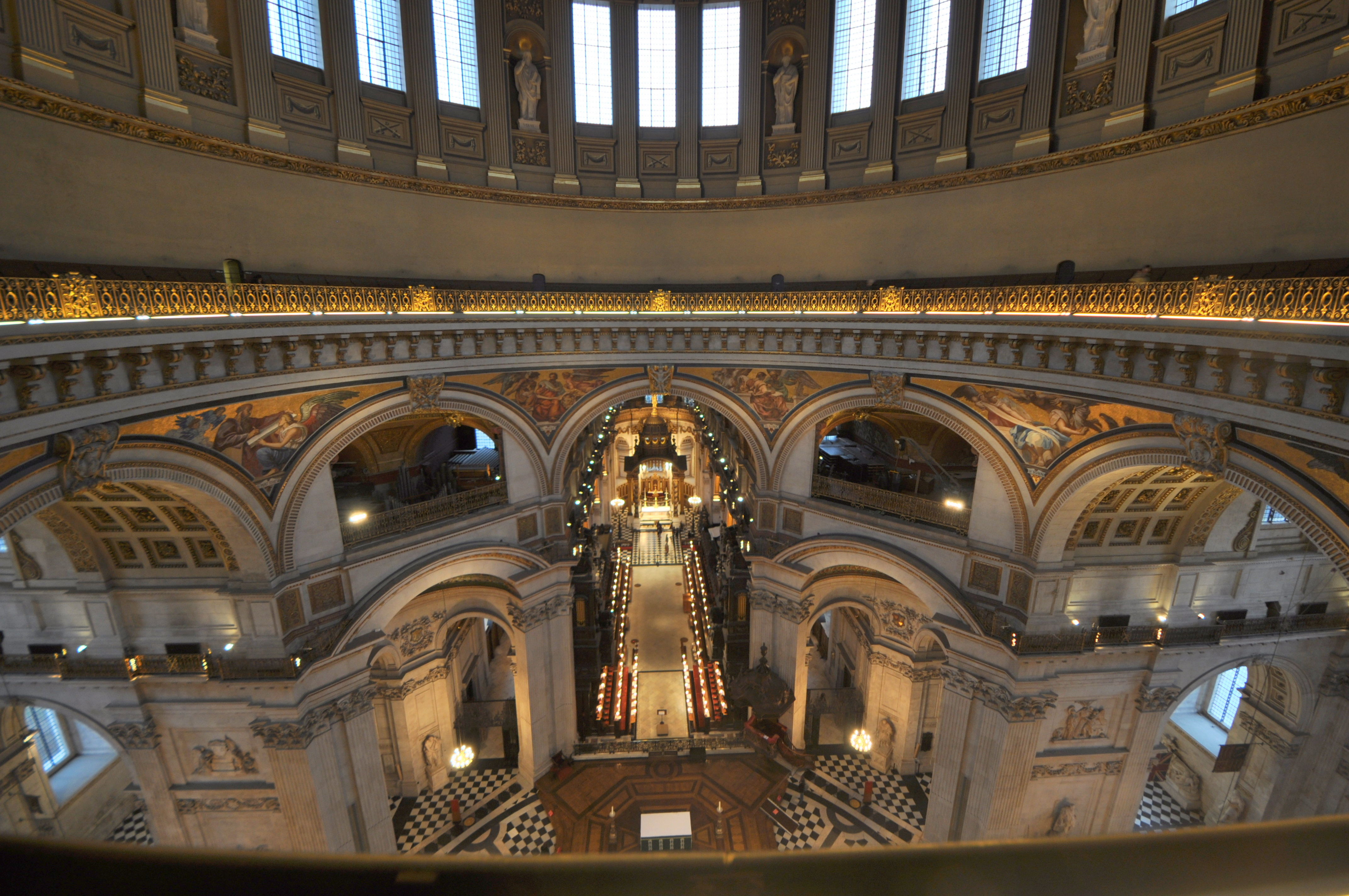 View from the whispering gallery in St Pauls Cathedral in London.